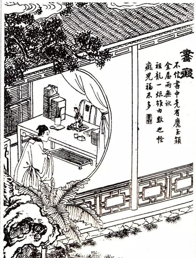 19th-century illustration of a scene in "The Bookworm", a short story by Pu Songling in Strange Tales from a Chinese Studio.